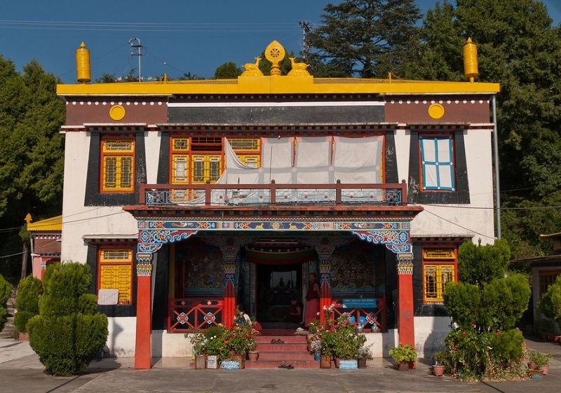 Happy Valley, Massoorie